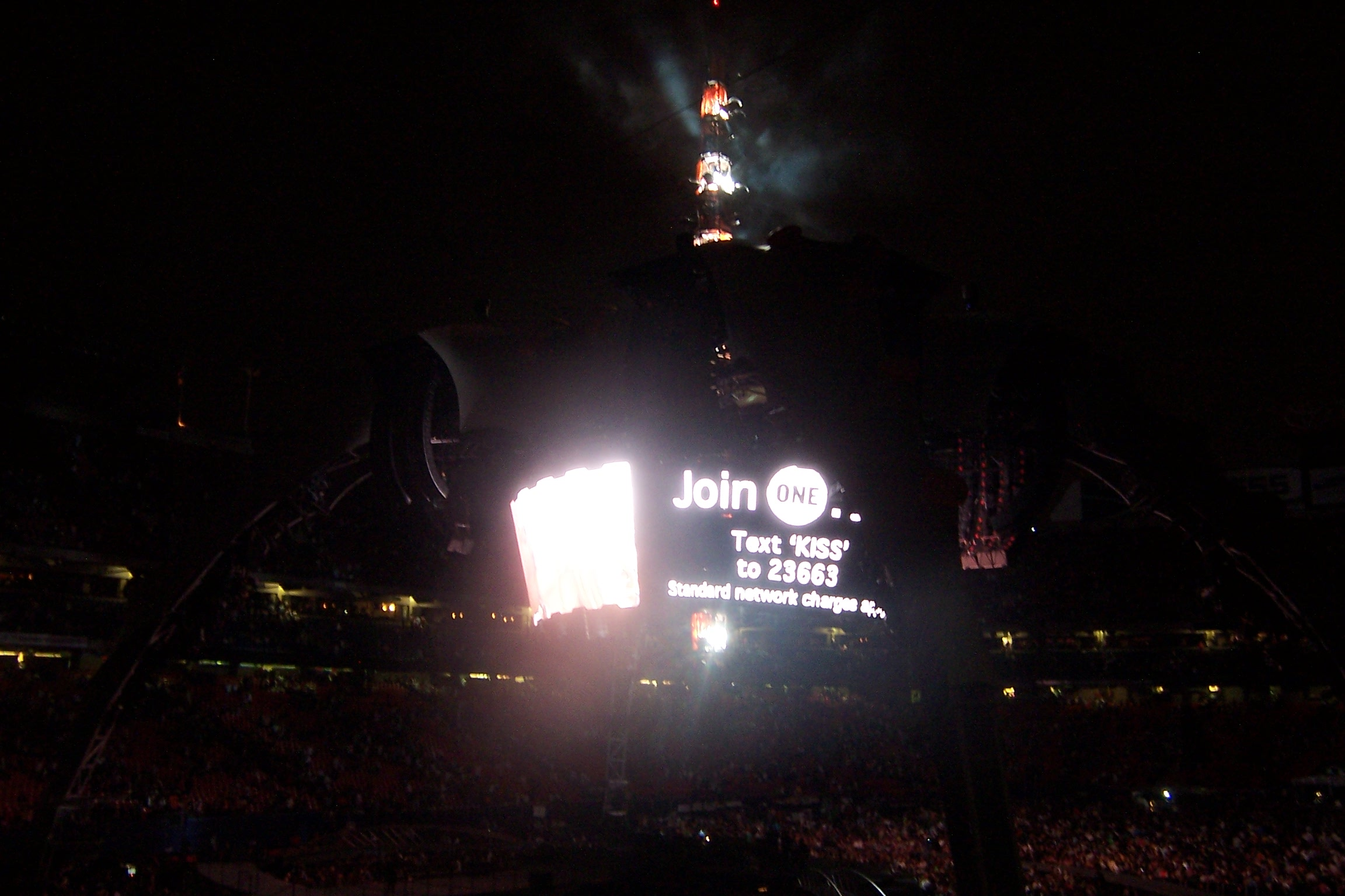 An invitation to join the ONE campaign, shown at the end of the U2 360° Tour show at Giants Stadium in New Jersey